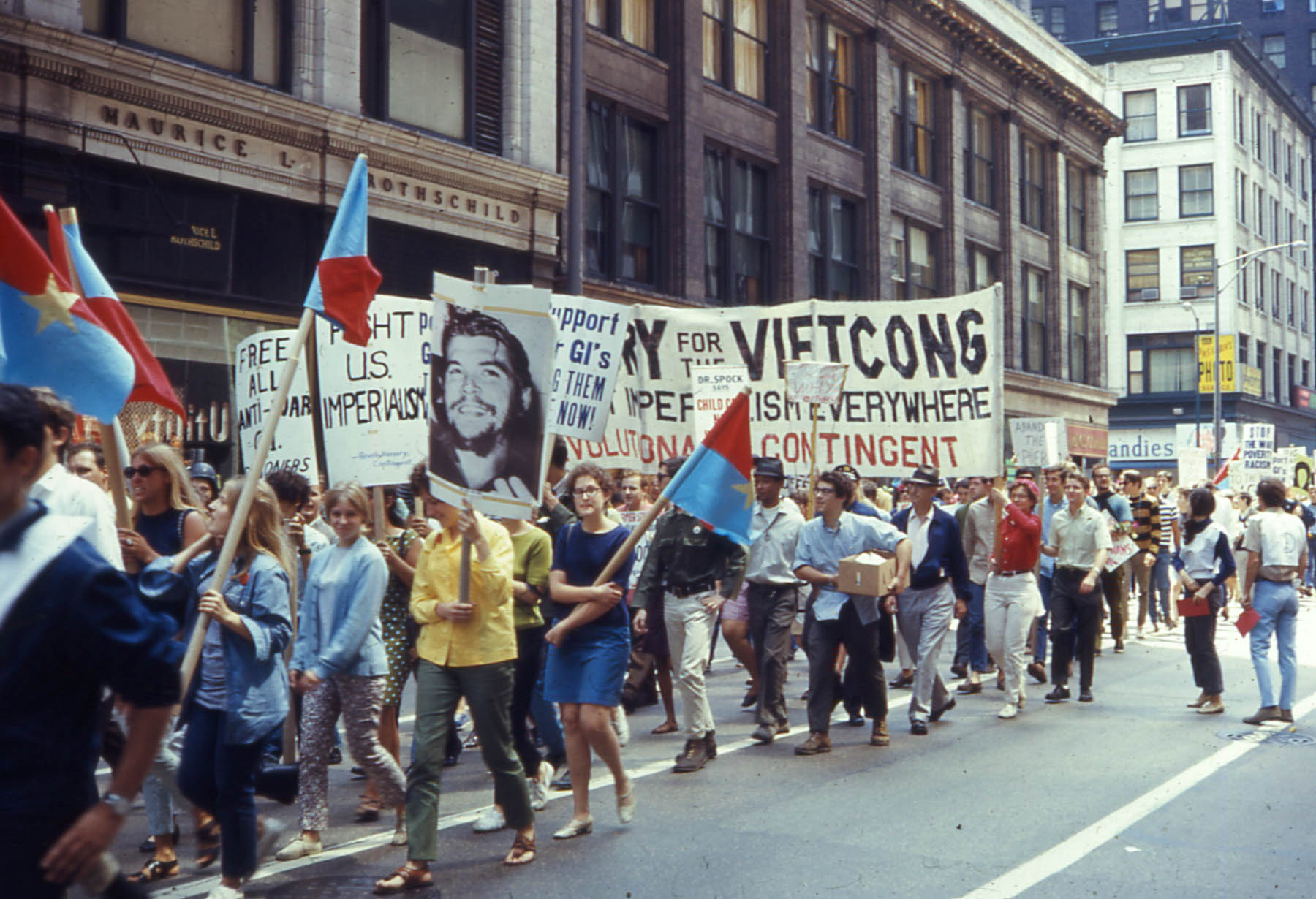 19680810 20 Anti-War March This demonstration took place as Chicago was preparing to host the Democratic National Convention.